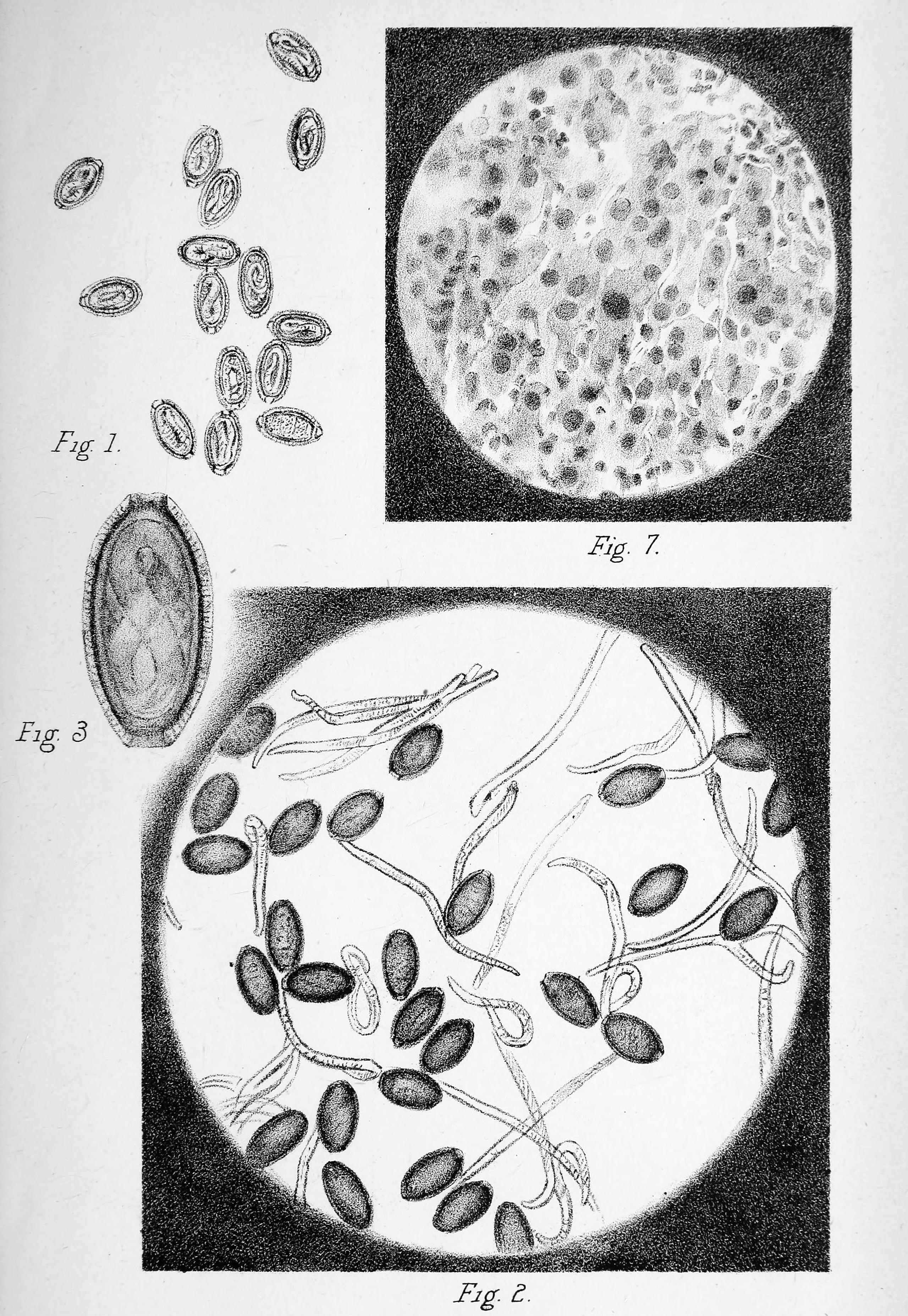 One of the two plates published in the original description of Trichocephalus hepaticus = Calodium hepaticum Plate VII Fig. 1—Mature eggs (alive) x 160. Fig. 2—The same, cover glass pressed down to expel embryos. Fig. 3—A mature egg (alive) x 650. Fig. 7—Is a photograph of a section of the diseased liver hardened in. Muller's fluid, stained by logwood and mounted in canada balsam; it was. taken by Zeiss' apochromatic objective 2.0 mm. 1.40 apert. and the No. 2: projection eye-piece on an Ilford isochromatic plate, x 270.